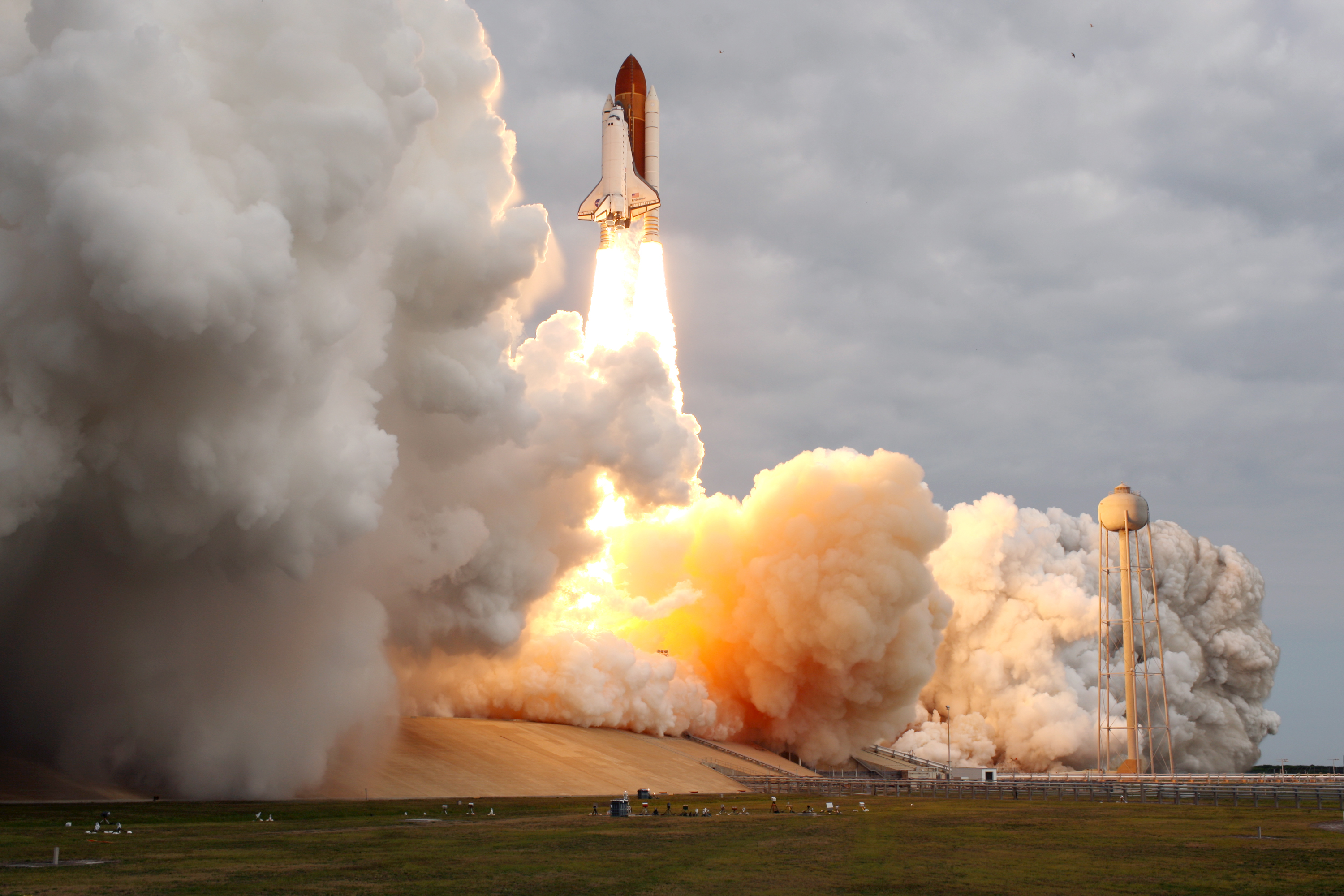 CAPE CANAVERAL, Fla. -- Rising on twin columns of fire and kicking up a trail of smoke and steam, space shuttle Endeavour lifts off from Launch Pad 39A at NASA's Kennedy Space Center in Florida beginning its final flight, the STS-134 mission, to the International Space Station. Launch was on time at 8:56 a.m. EDT on May 16. STS-134 and its six-member crew will deliver the Alpha Magnetic Spectrometer-2 (AMS), Express Logistics Carrier-3, a high-pressure gas tank and additional spare parts for the Dextre robotic helper to the space station. Endeavour's first launch attempt on April 29 was scrubbed because of an issue associated with a faulty power distribution box called the aft load control assembly-2 (ALCA-2).